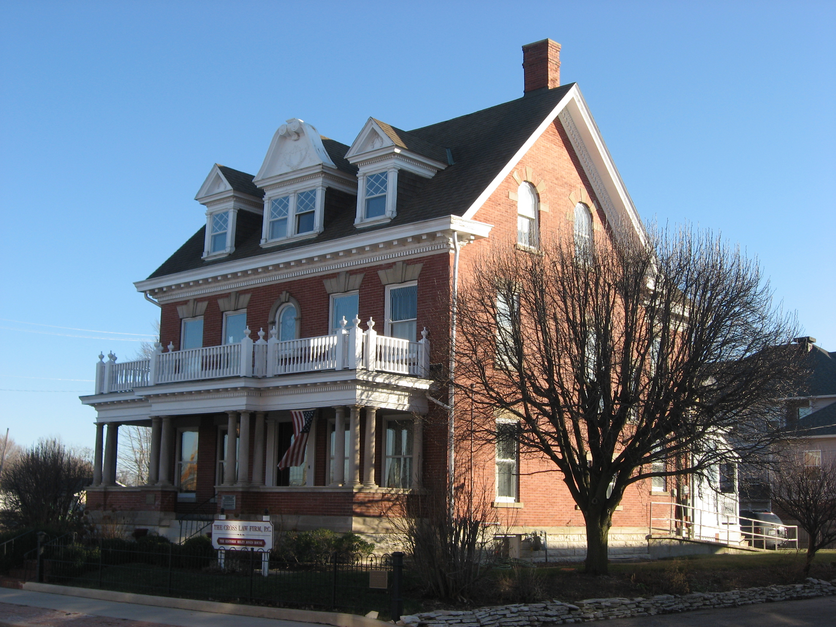 Front and western side of the Margaret and George Riley Jones House, located at 315 E. Charles Street in Muncie, Indiana, United States. Built in 1901, it is listed on the National Register of Historic Places.